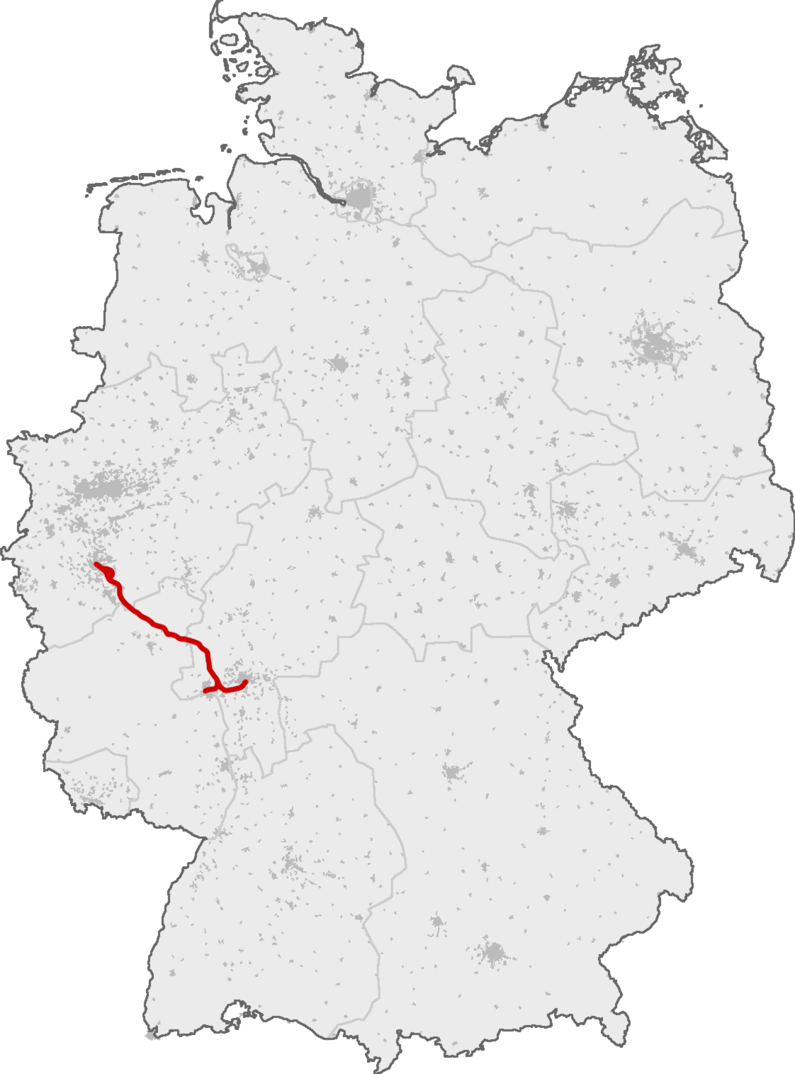 High-speed railway line Cologne–Frankfurt. The northern end from Cologne to Siegburg line has been upgraded for speeds up to 200 km/h, the line from Siegburg to Frankfurt has been built for speeds up to 300 km/h